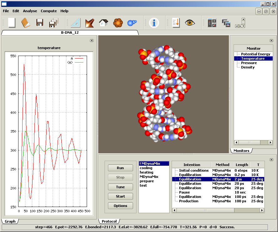 MDynaMix with Ascalaph graphical shell.